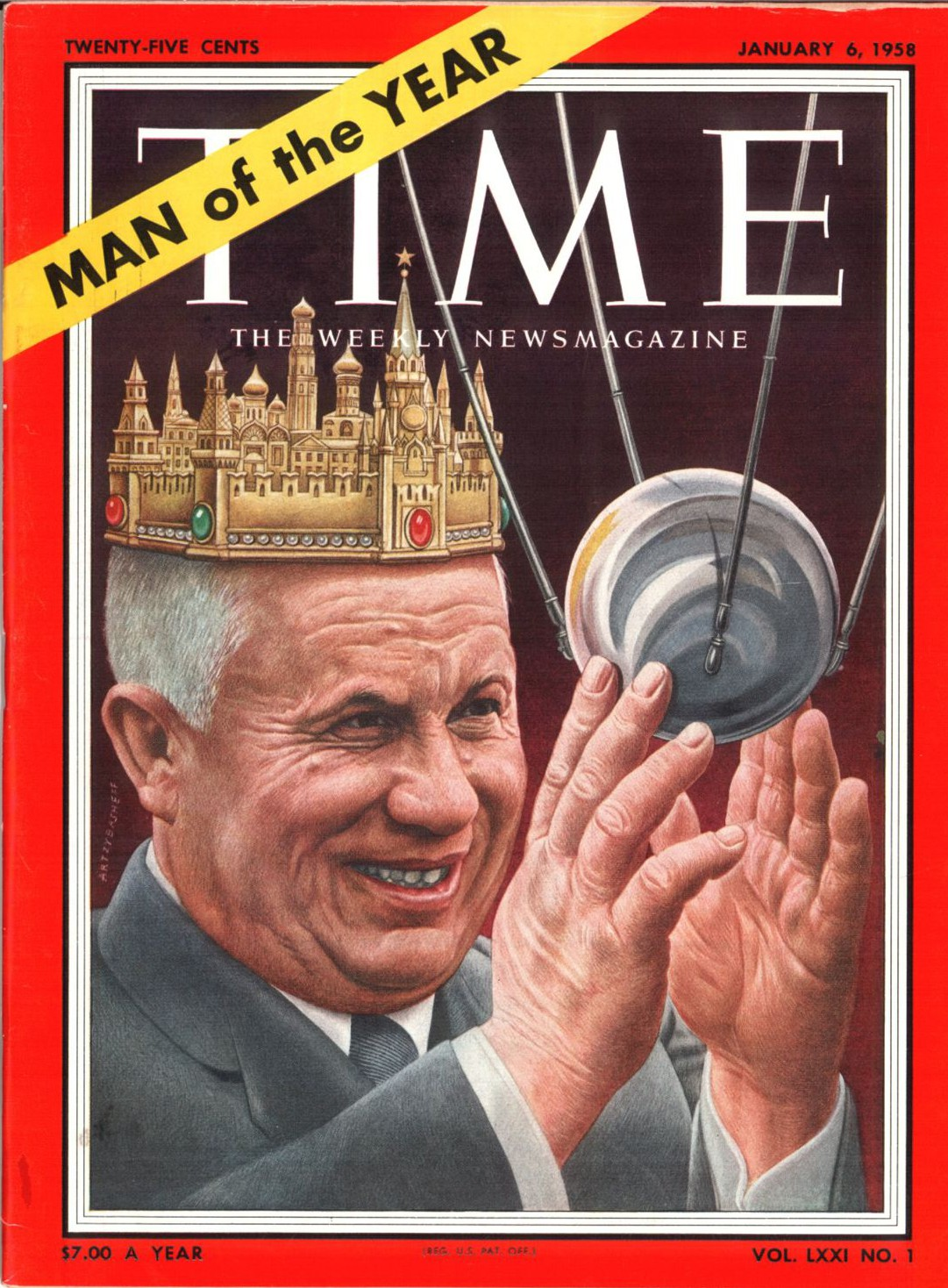 Time magazine, Volume 71 Issue 1. Front cover is an illustration of Nikita Khrushchev.